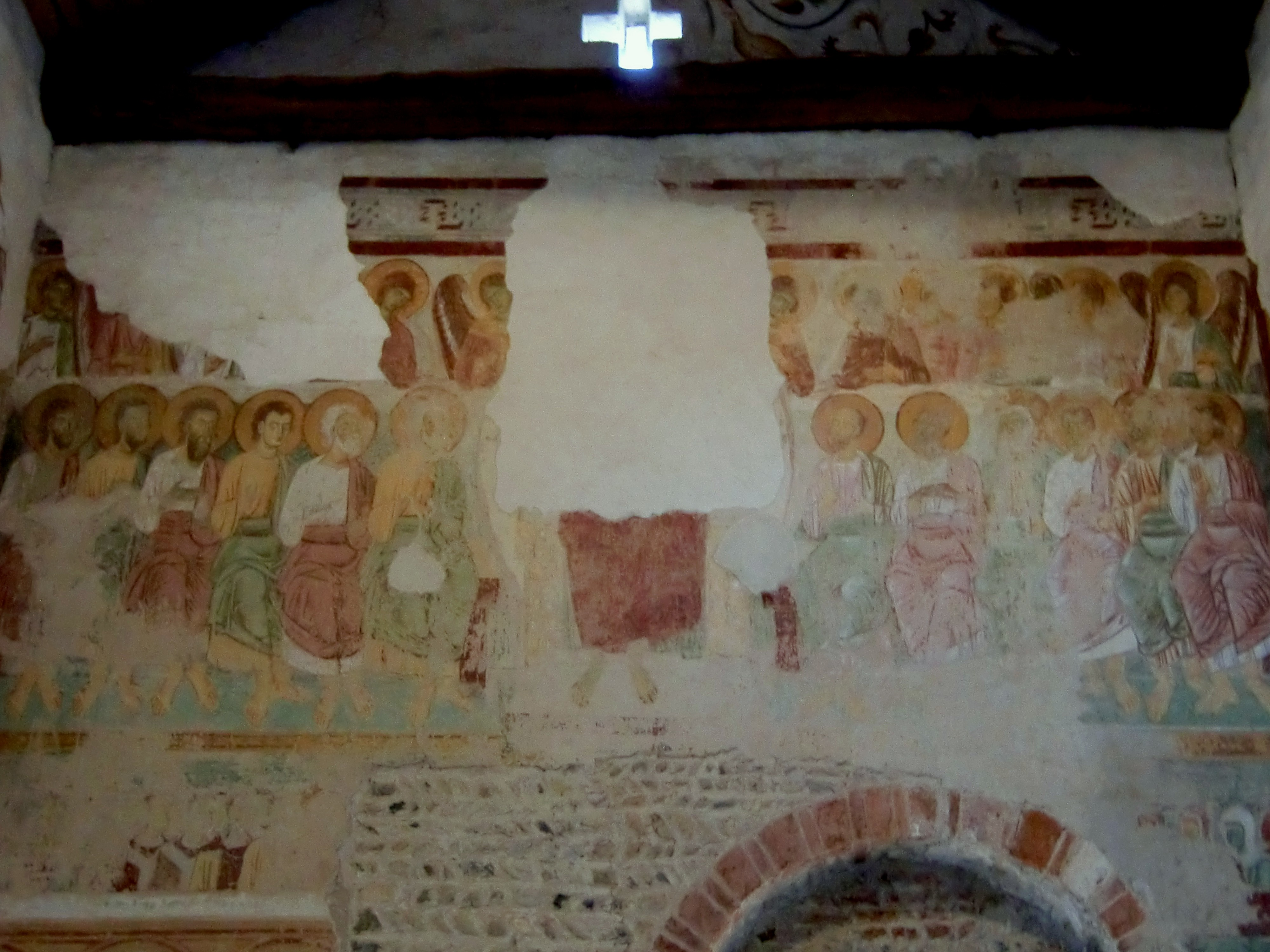 Oleggio, church of San Michele, romanesque frescoes (XI century), Last Judgement